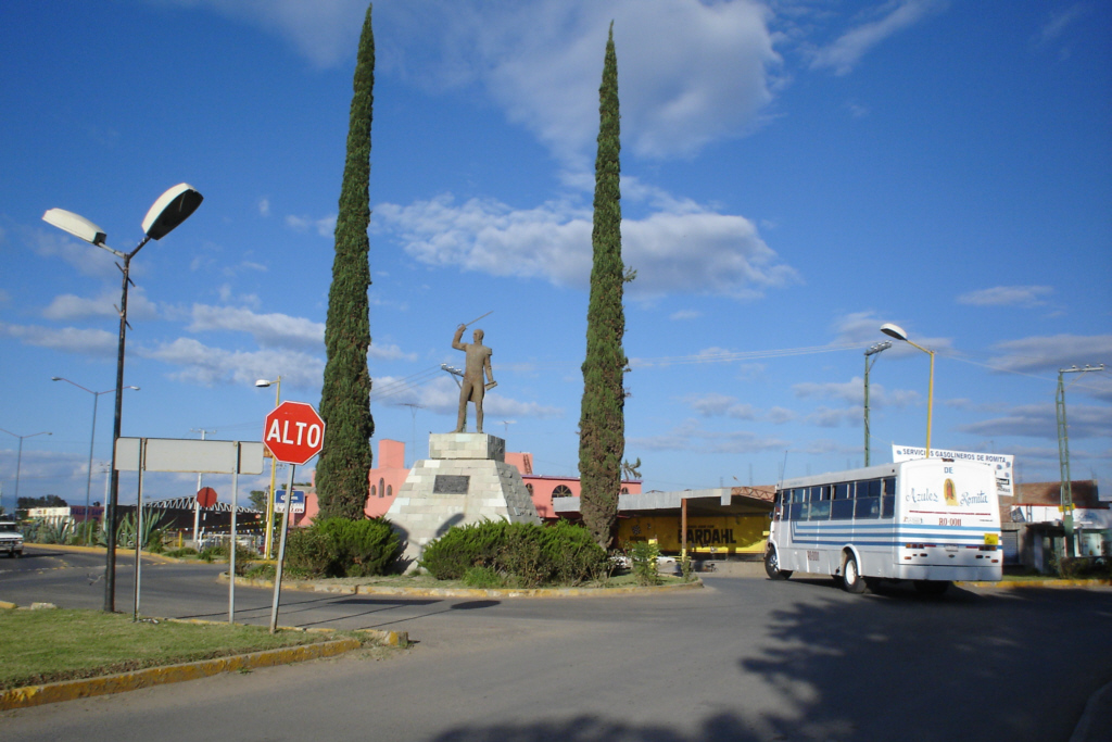 statue of Jose Ma. Liceaga hero of the Independence of Mexico, road to Irapuato and Silao